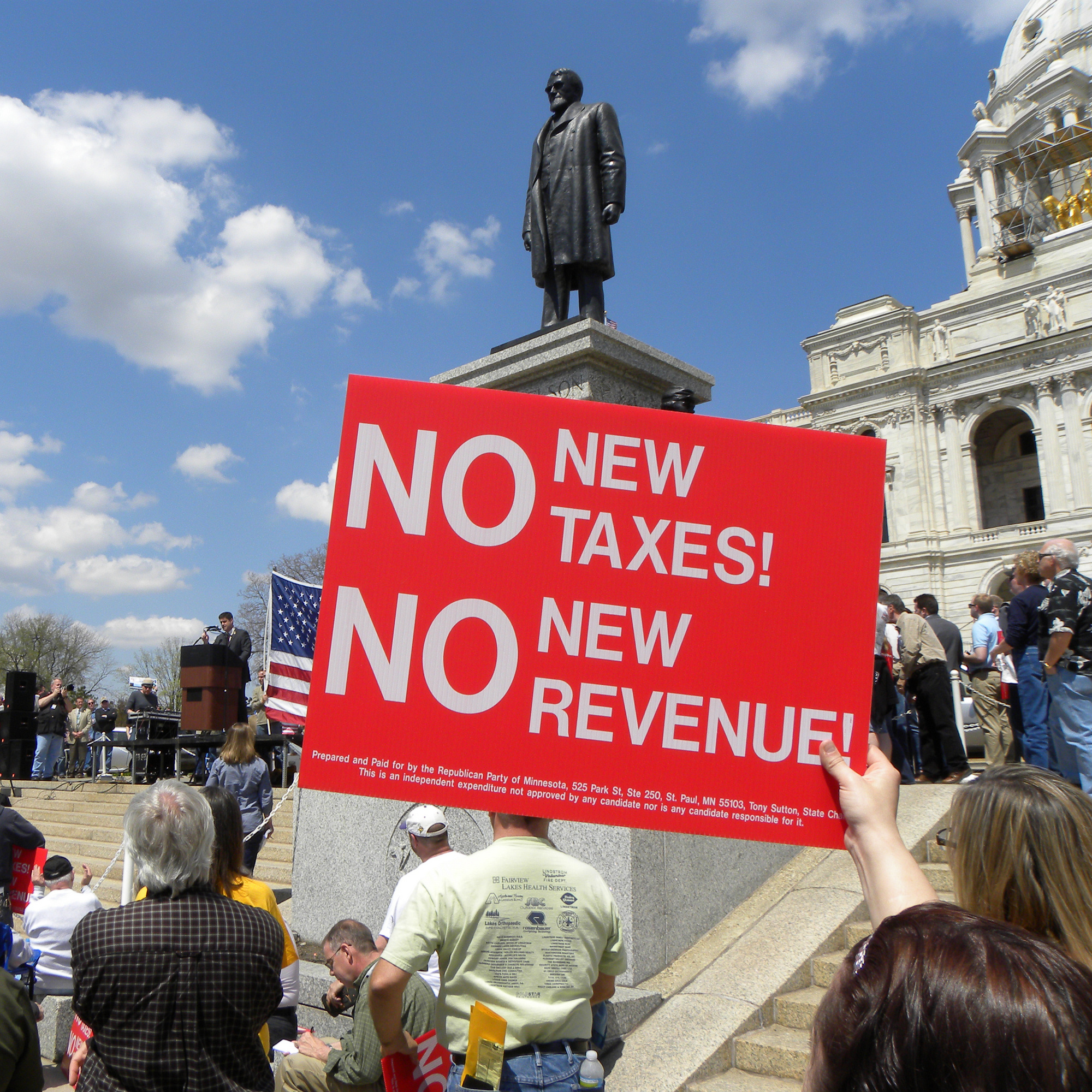 St. Paul, Minnesota May 7, 2011 A few thousand people attended the annual Tax Cut Rally at the Minnesota state capitol building. The conservative protesters say they want lower taxes and smaller government. Sign reads: NO NEW TAXES! NO NEW REVENUES! The fine print explains that the sign was made by the Republican Party of Minnesota. There were many of these signs at the rally. This event was sponsored by: Republican Party of Minnesota, Fox News Radio KTLK, Minnesota Majority 501(c)4, Taxpayer's League of Minnesota 501(c)4 2011-05-07 This is licensed under a Creative Commons Attribution License.